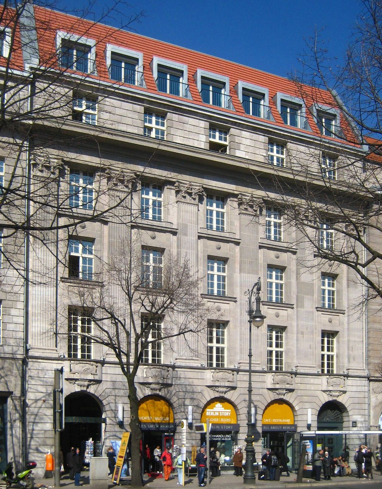 The former bank building of the Preußische Central-Bodenkredit-AG, Unter den Linden No. 26, in Berlin-Mitte. It was built from 1910 to 1914 to different designs by the architects Kurt Berndt and Richard Bielenberg & Josef Moser respectively. The building has been designated as a historic landmark.